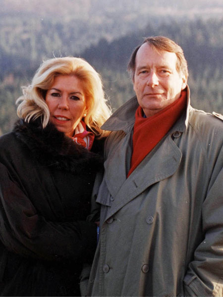 Brigitta, Princess of Prussia with her husband Michael